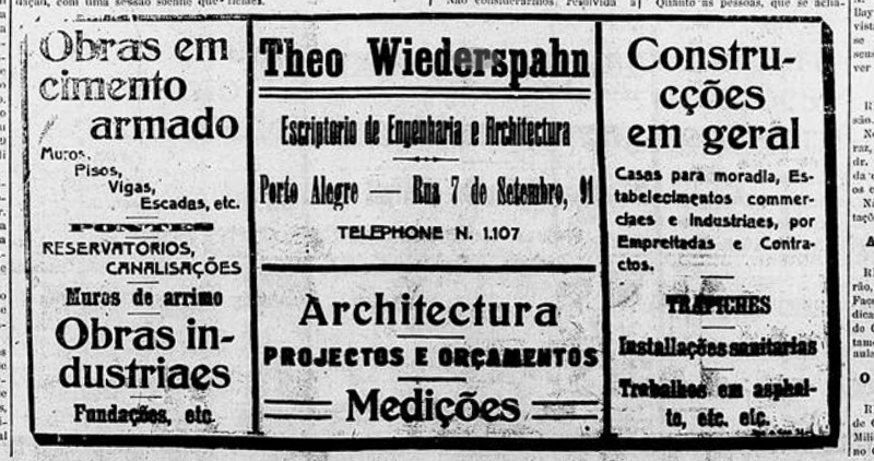 Propaganda profissional de Theodor Wiederspahn